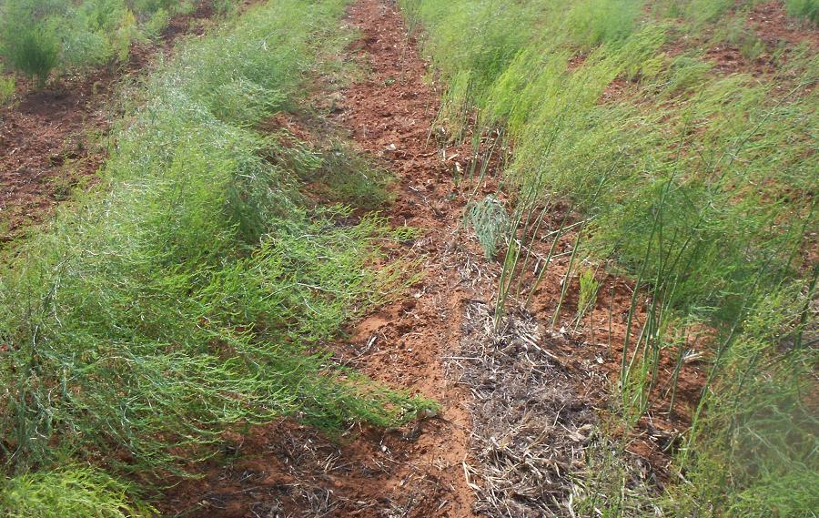 Asparagus fern